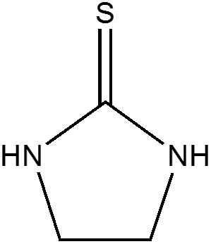 ethylene thiourea